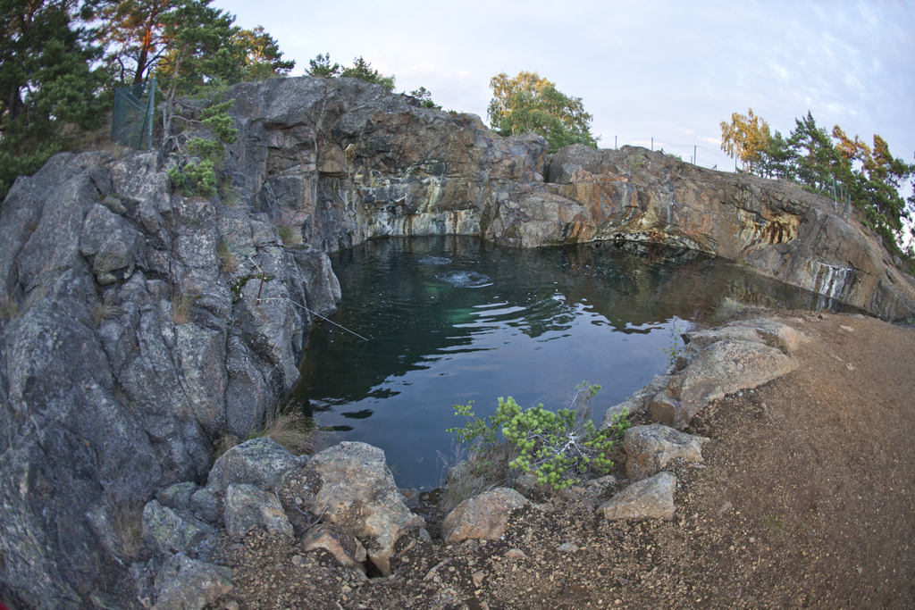 Fångömines main entrance.(Divers in the water)